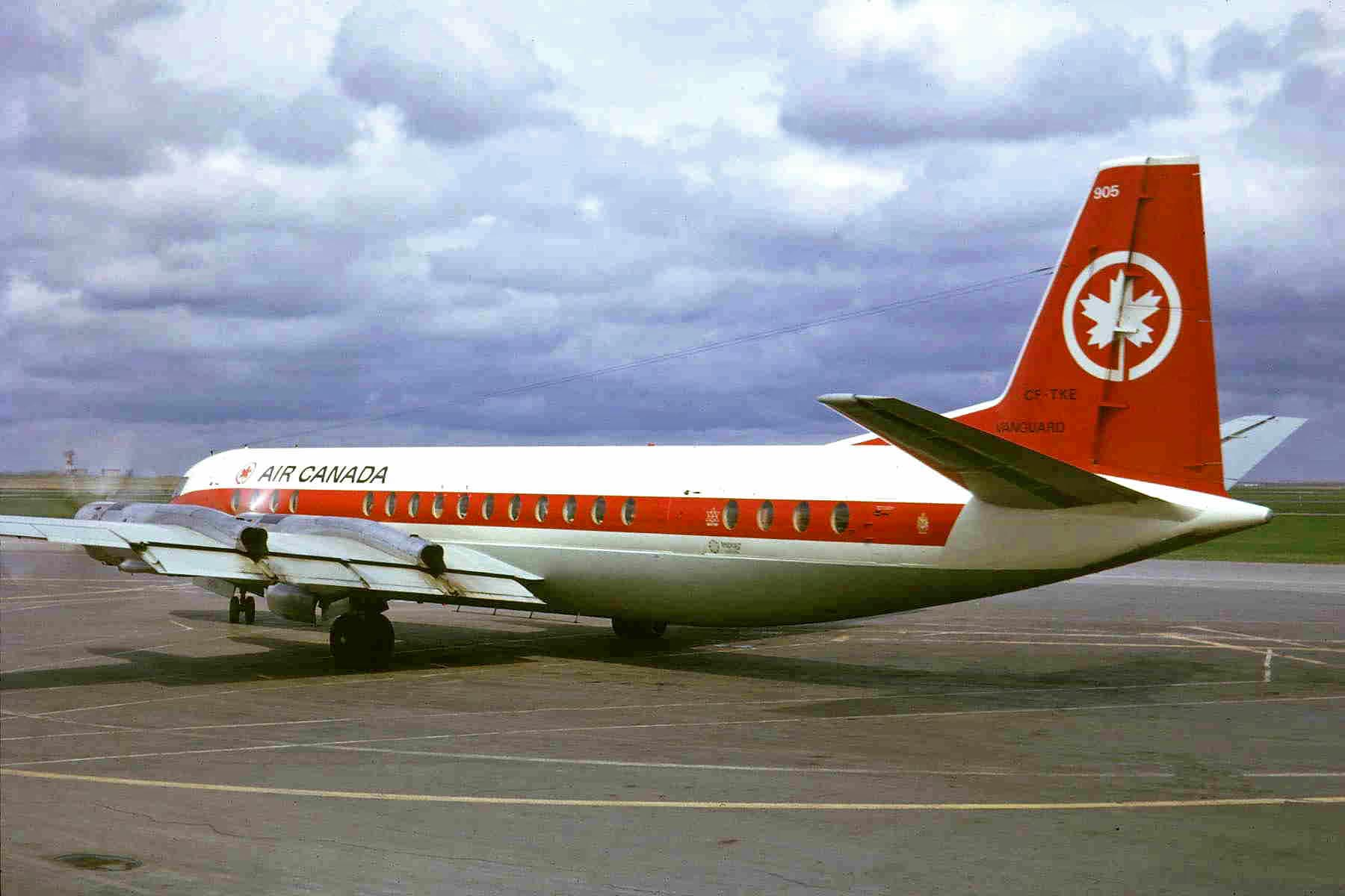 Canada's CF- registration prefix was replaced on 31-May-74 by C-F & C-G as they were starting to run short of registrations